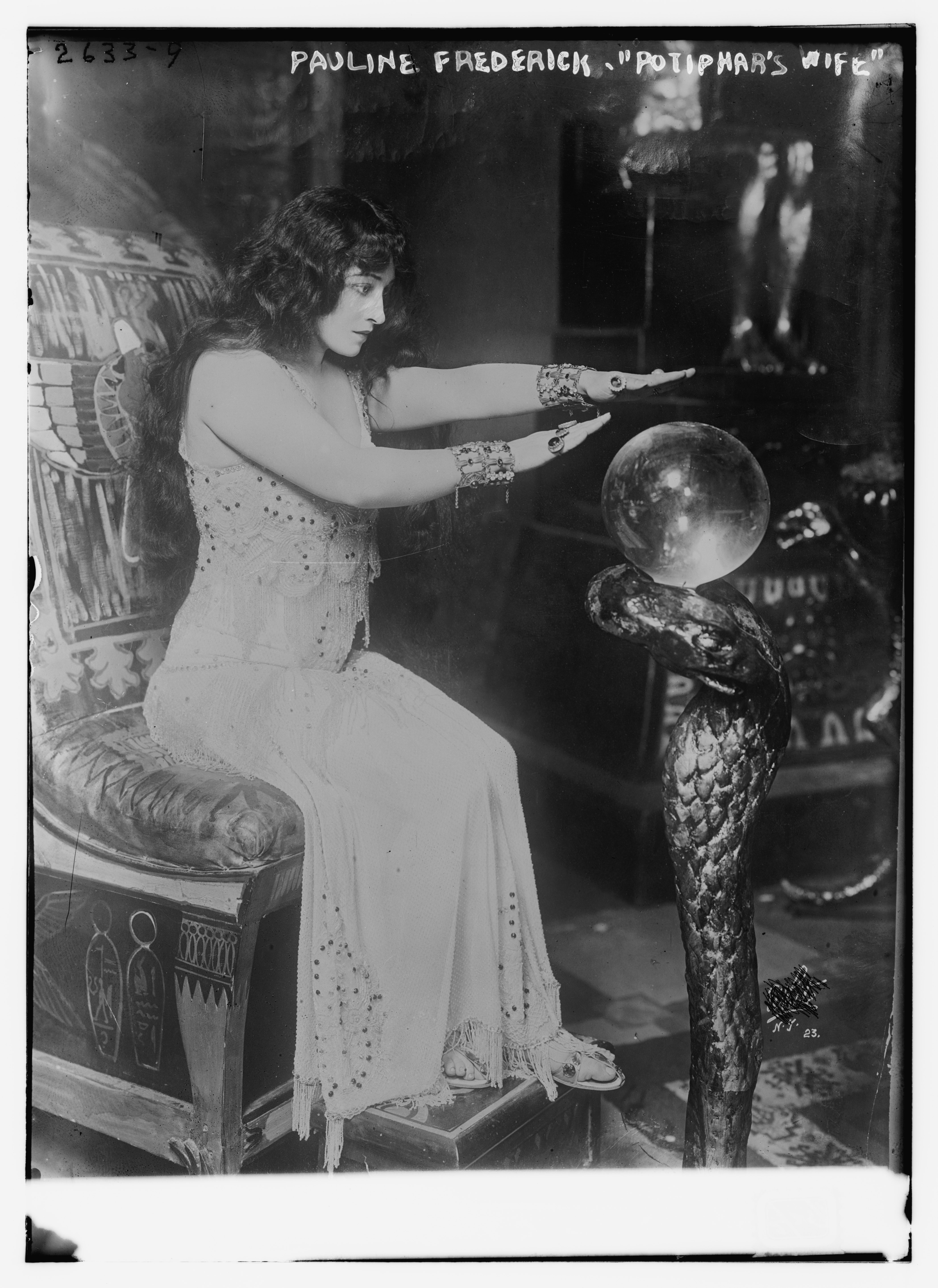 Title: Pauline Frederick - Potiphar's wife from the play Joseph and His Brethren. Abstract/medium: 1 negative : glass ; 5 x 7 in. or smaller.